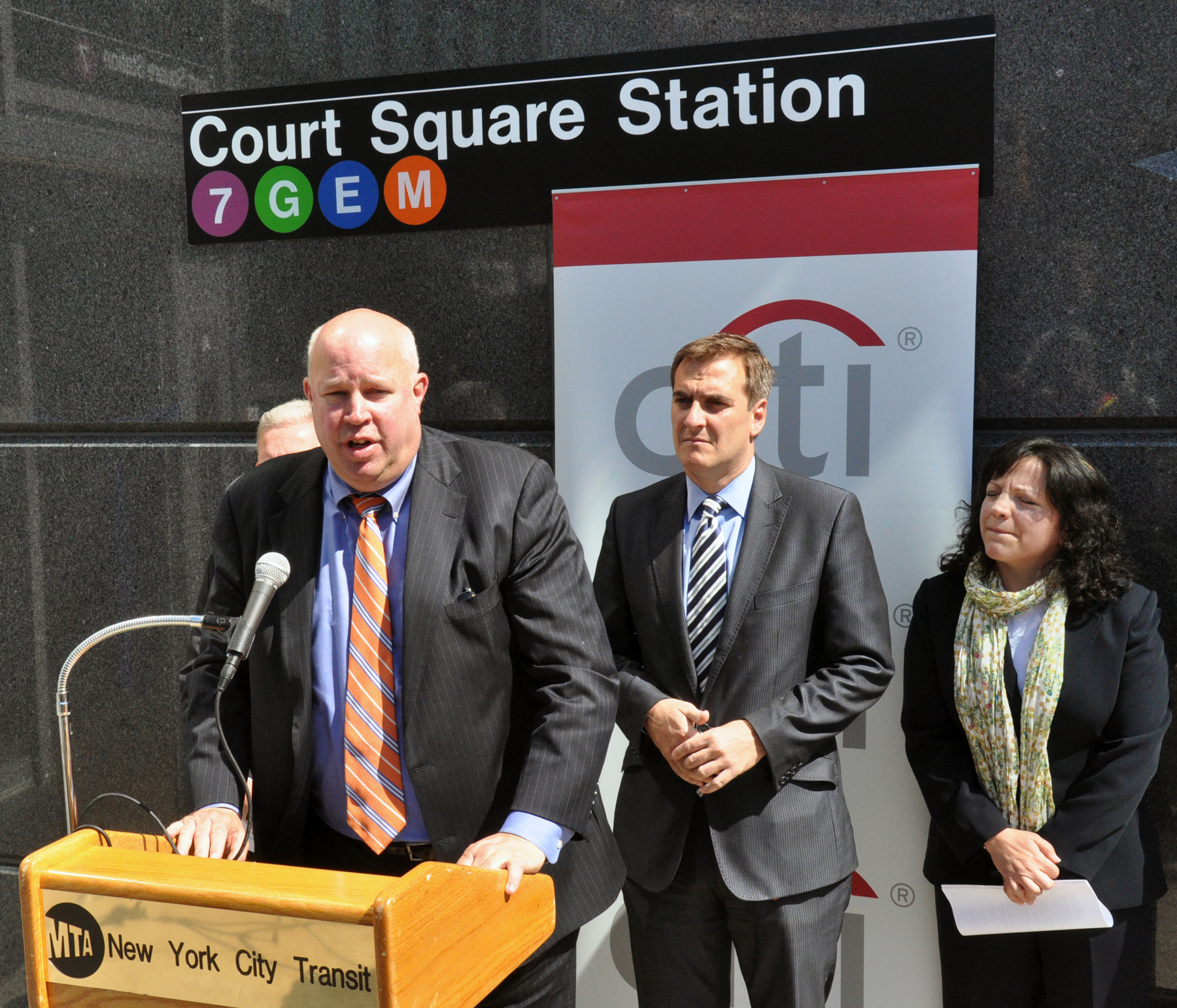 Thomas F. Prendergast, President of MTA New York City Transit, is at the lectern, opening the Court Square Station. To the right are State Senator Michael Gianaris and Citigroup’s Long Island City Site President, Maria Veltre. Photo by Metropolitan Transportation Authority / Felix Candelaria.